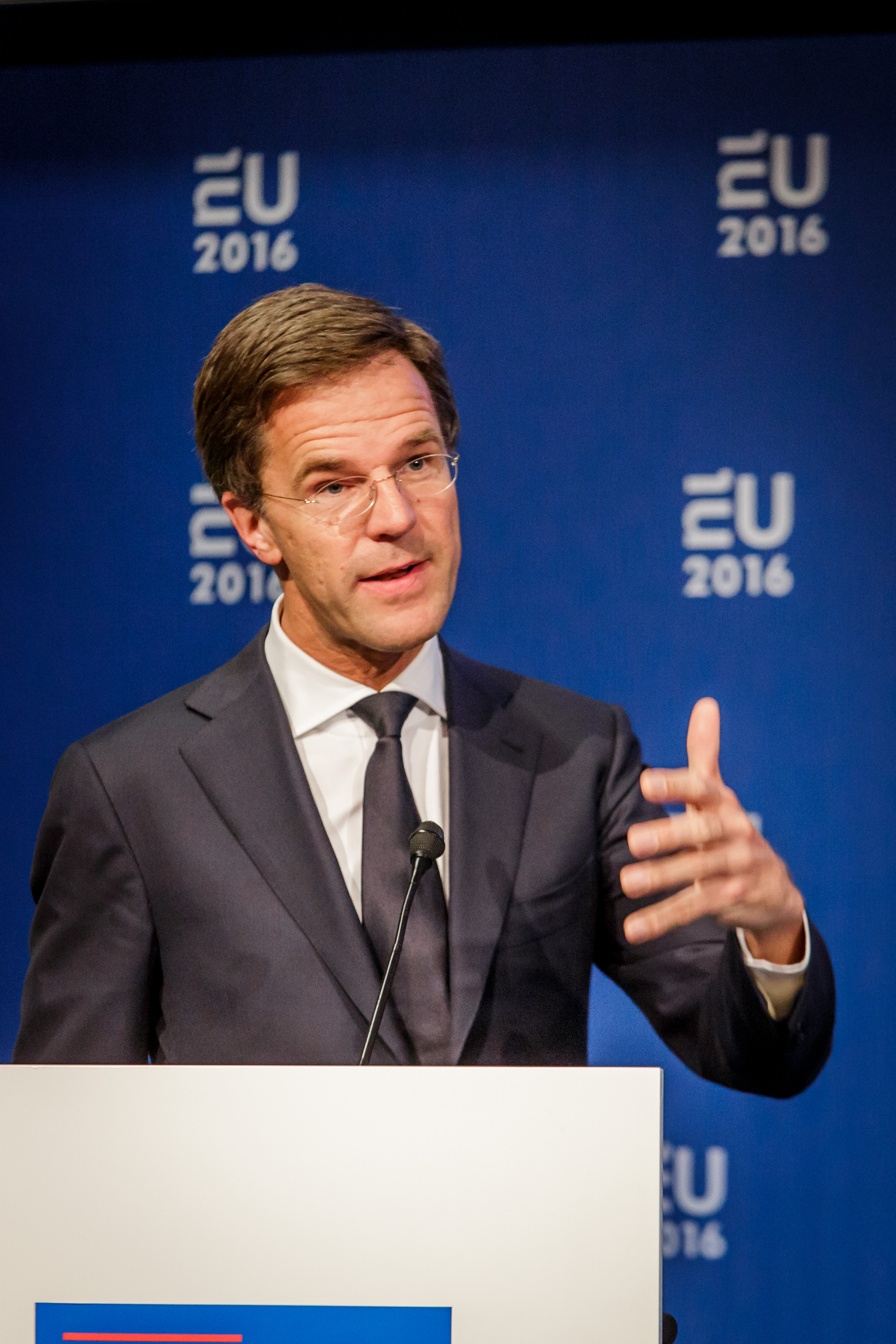 Single Market conference EU 2016